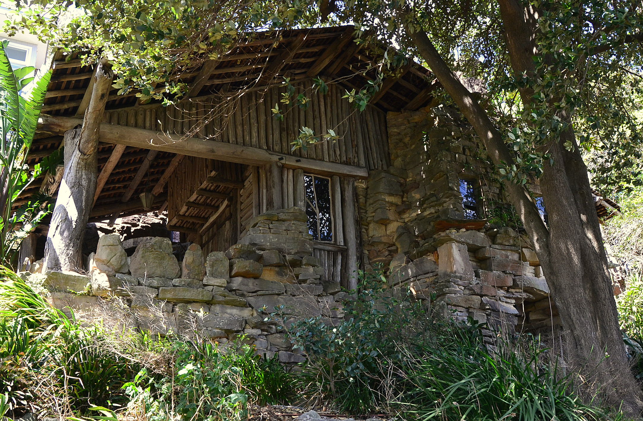 Loggan Rock, Avalon, Sydney